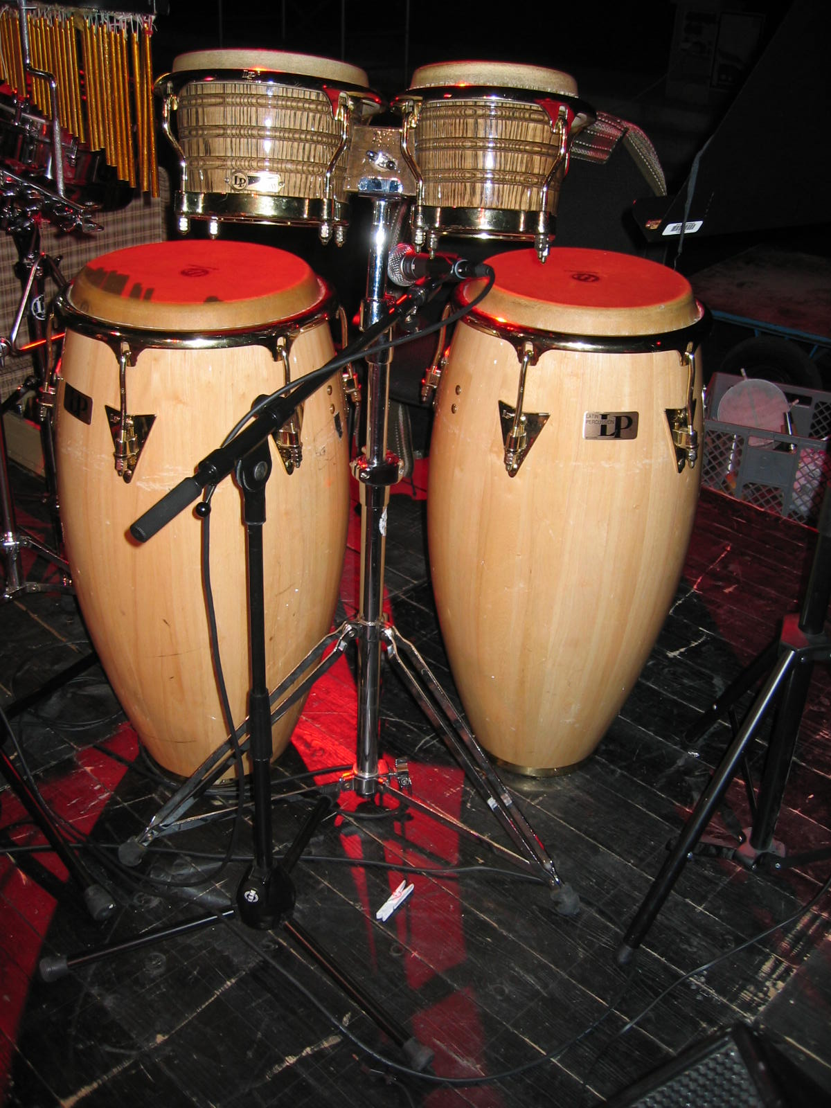 Kongas and bongos, drums